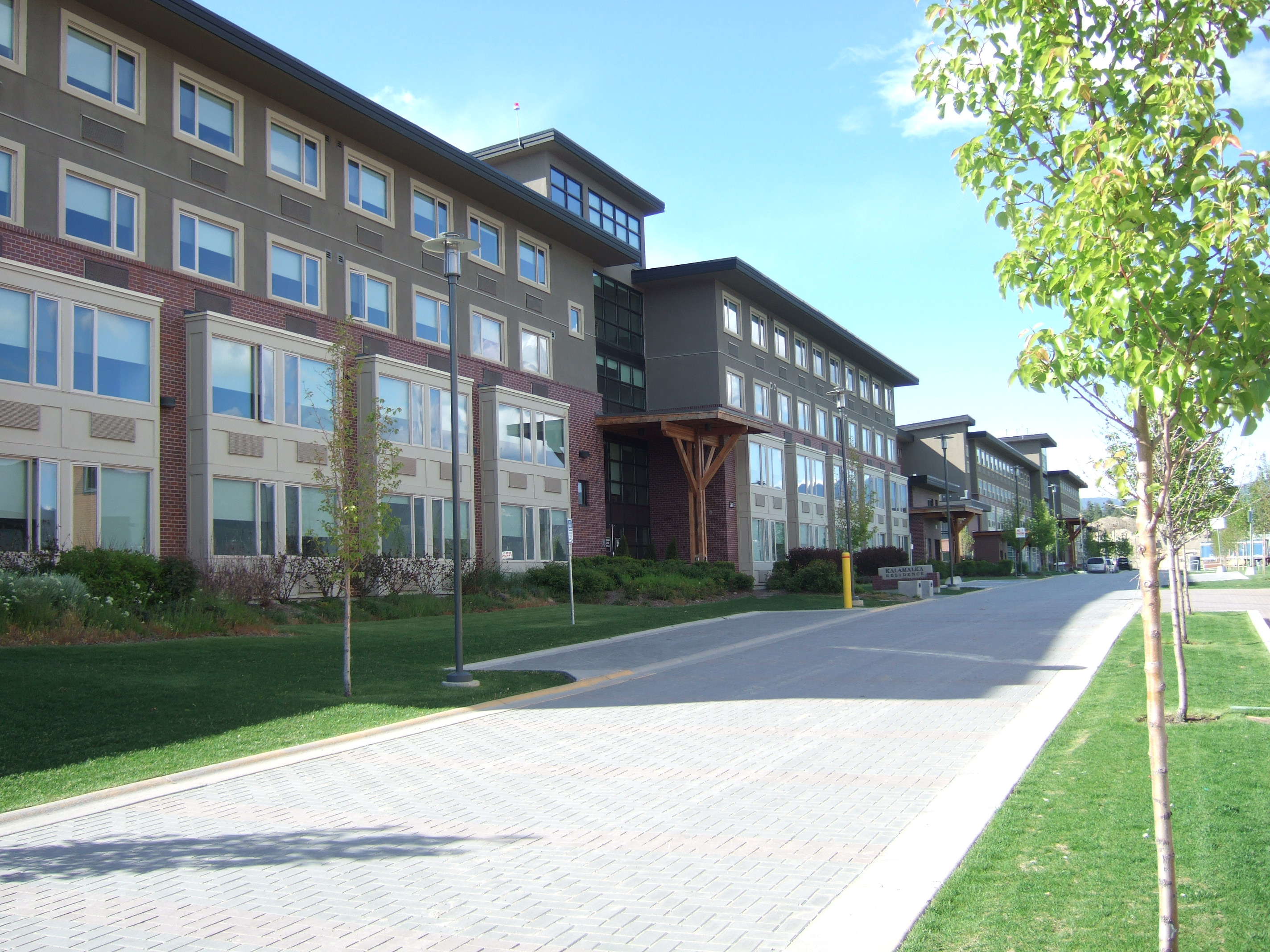 International Mews at UBC Okanagan with two residences.